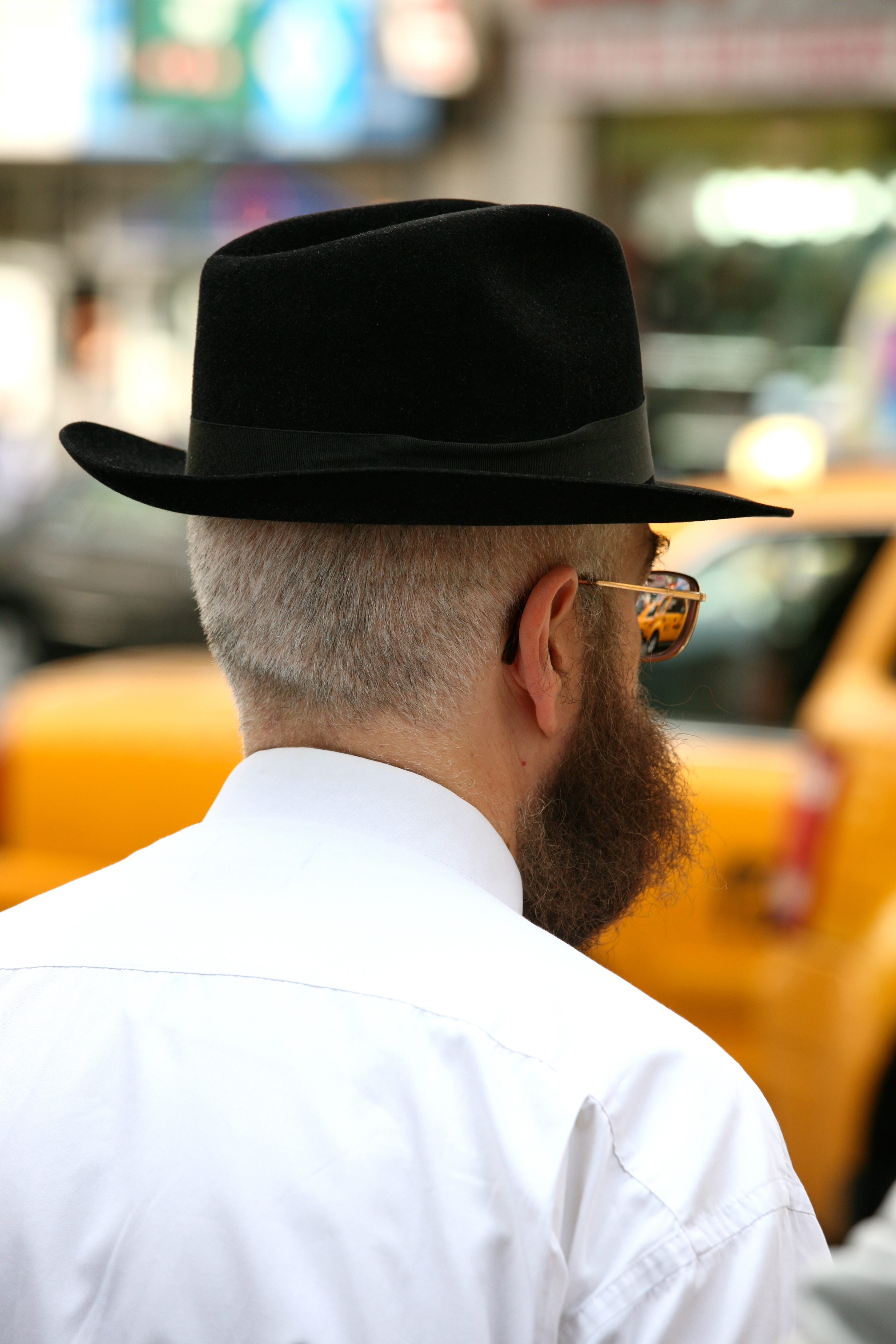 Cab in the Glasses